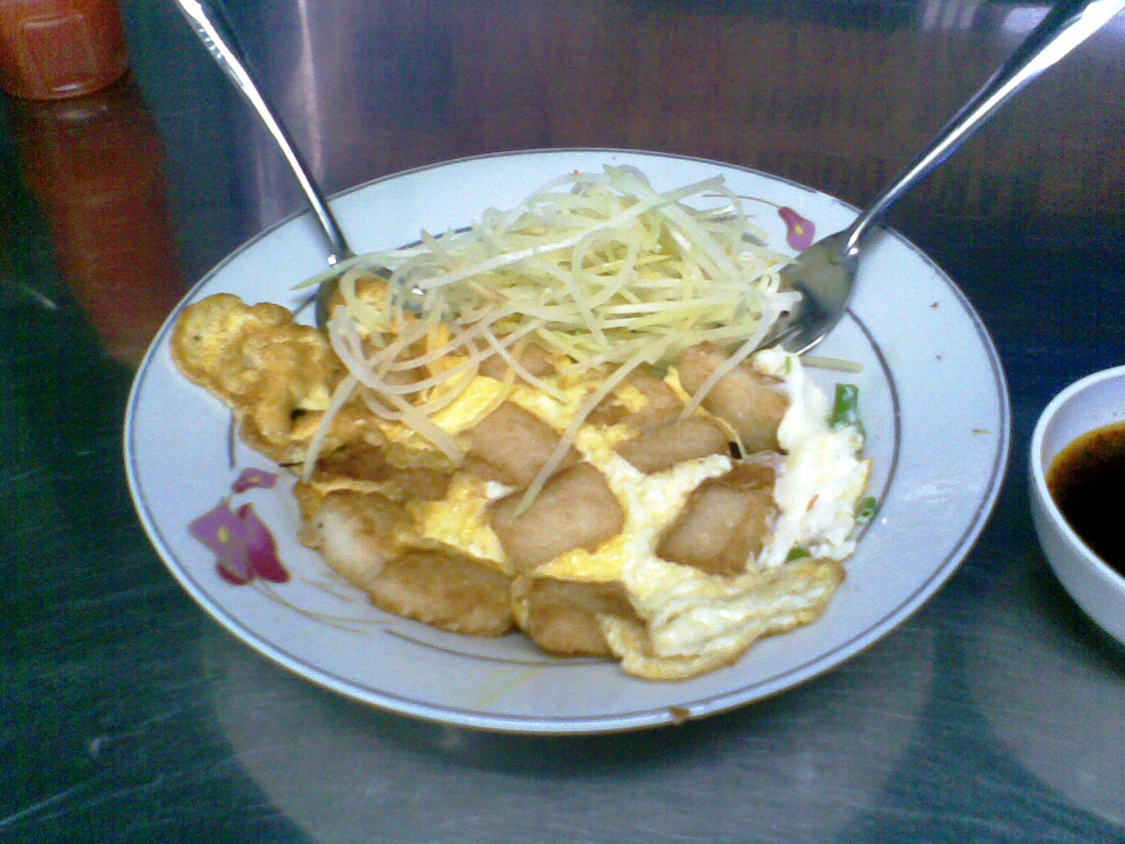 A dish of botchien (a traditional Chinese dishes) in Vietnam